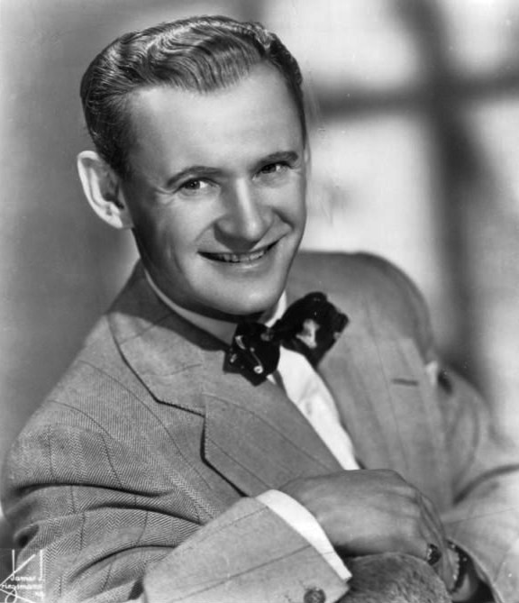 Publicity photo of bandleader/musician Sammy Kaye.